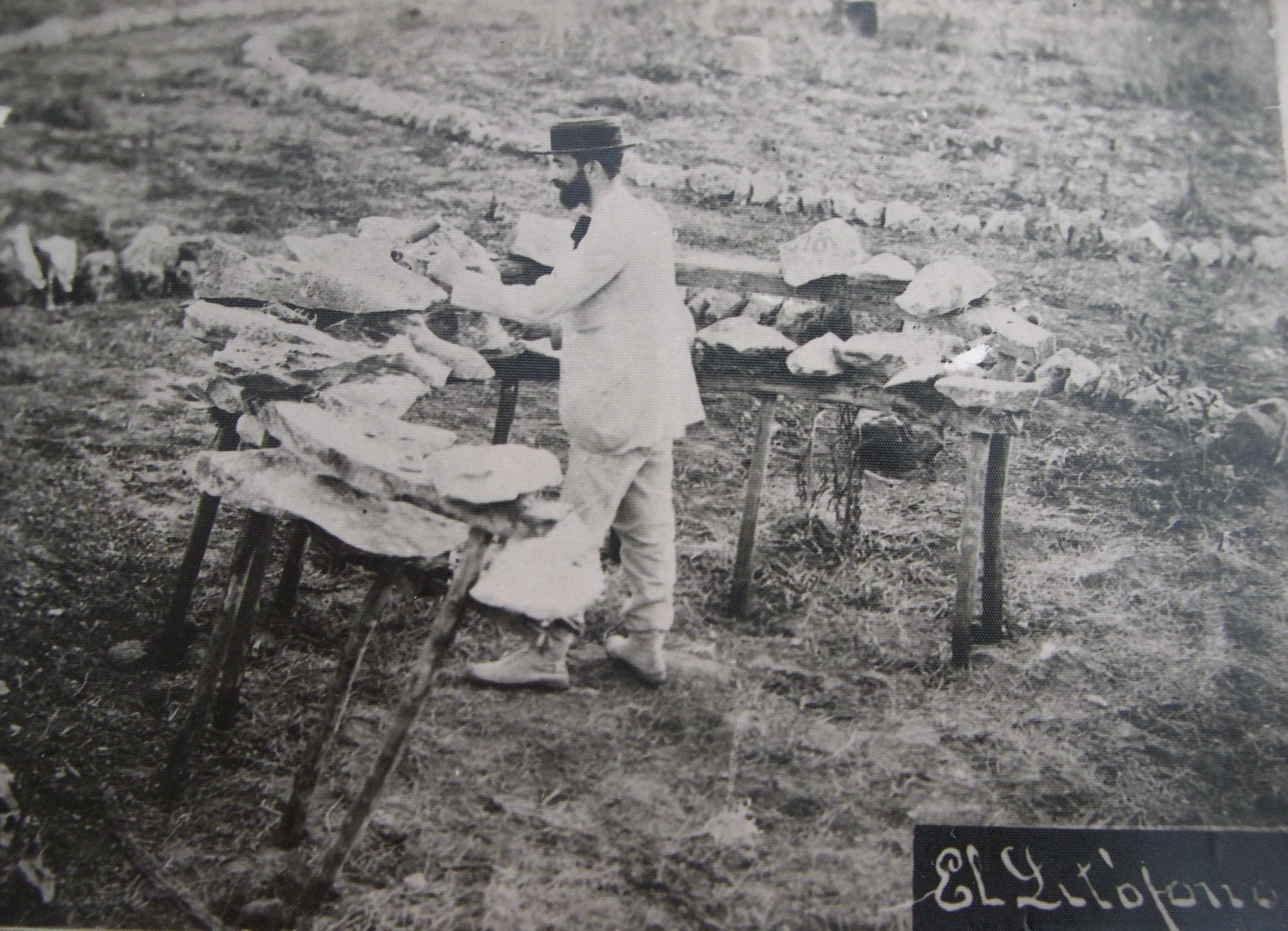 Antonio Roca Várez (native of Maó, Minorca). At the end of the 19th century he invented the modern litófono. They gave him, in 1904, one prize in Naples.